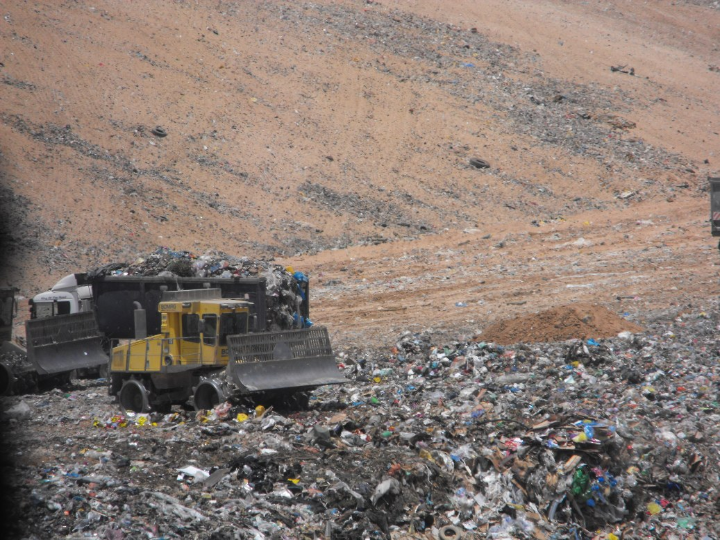 Locate concealed modern household waste